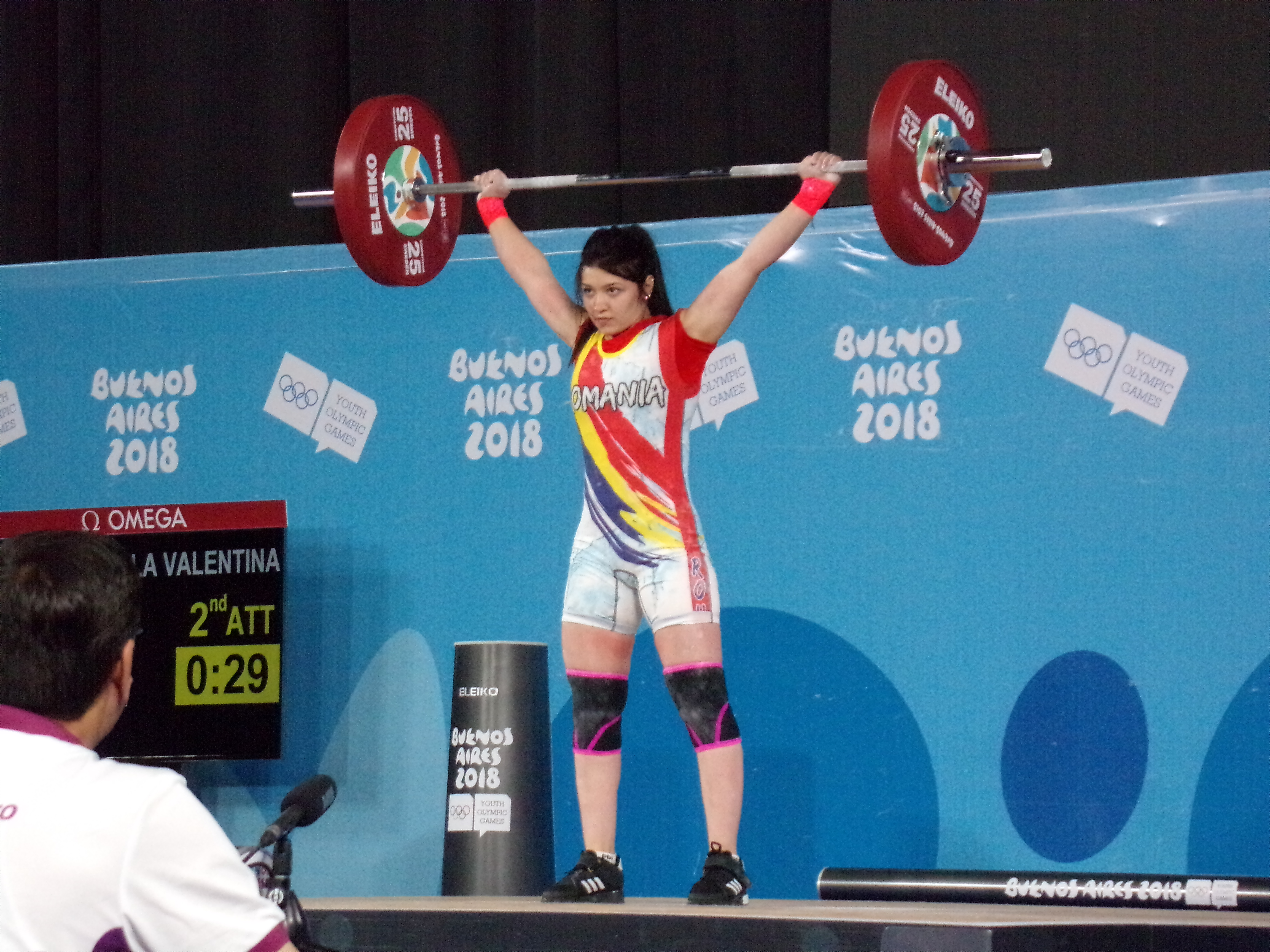 Weightlifting at the 2018 Summer Youth Olympics – Girls' 48 kg.